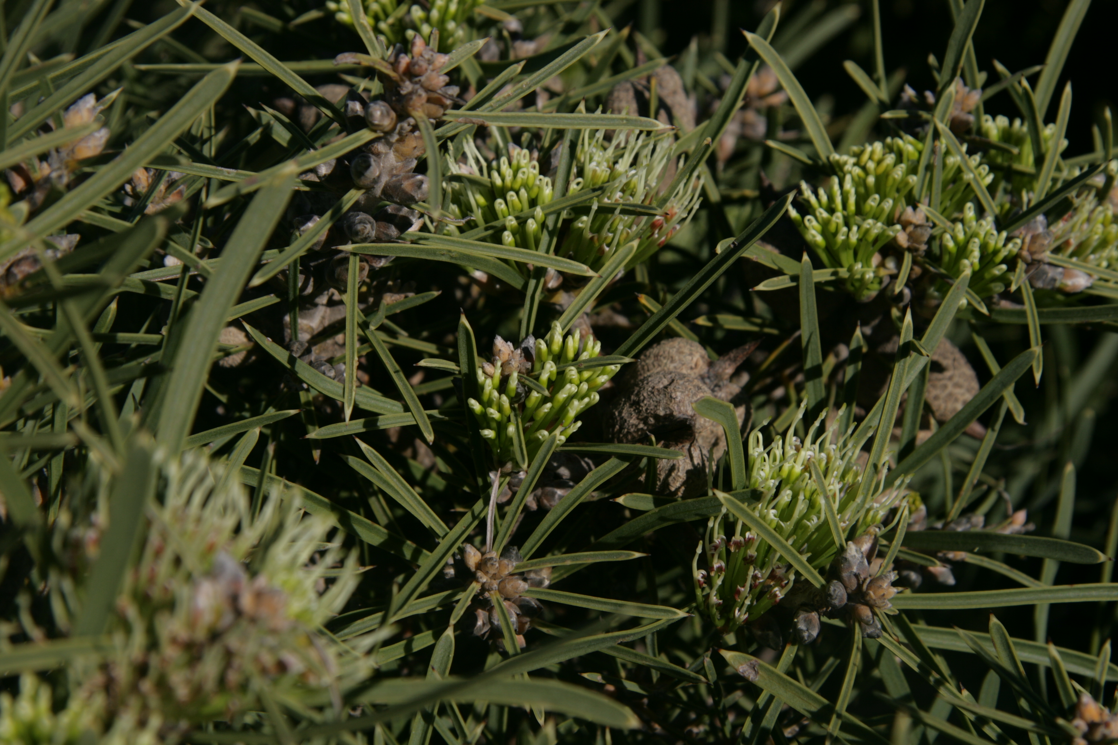 Hakea corymbosa (fruit and flwrs) Royal Botanic Gardens, Cranbourne